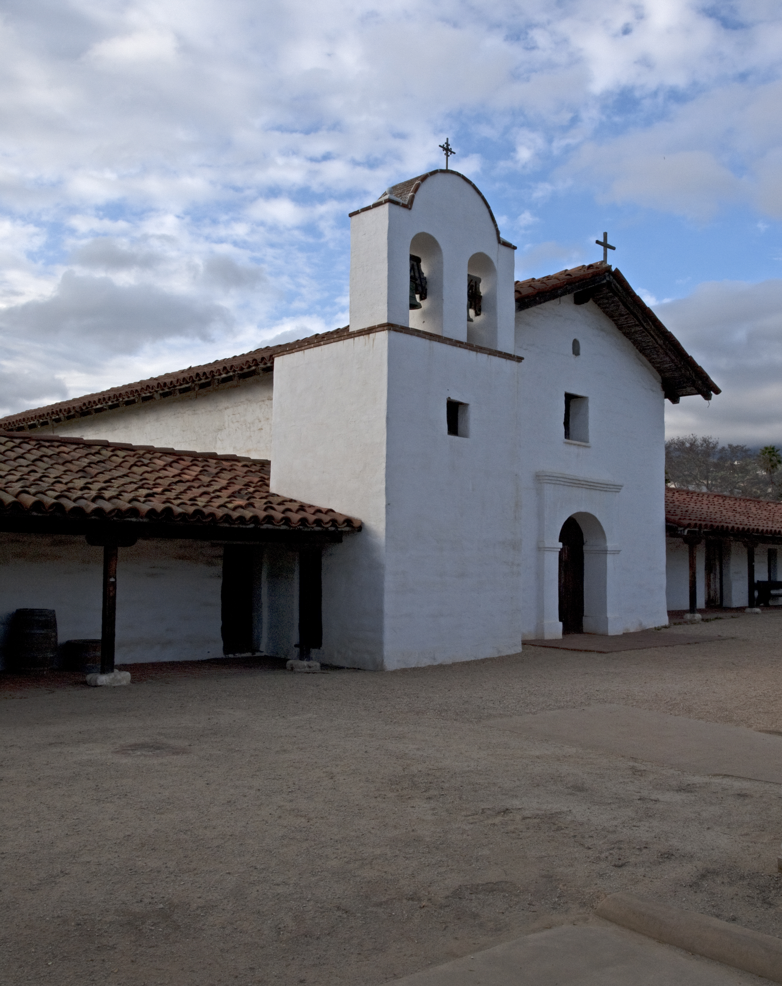 Presidio Chapel, Santa Barbara